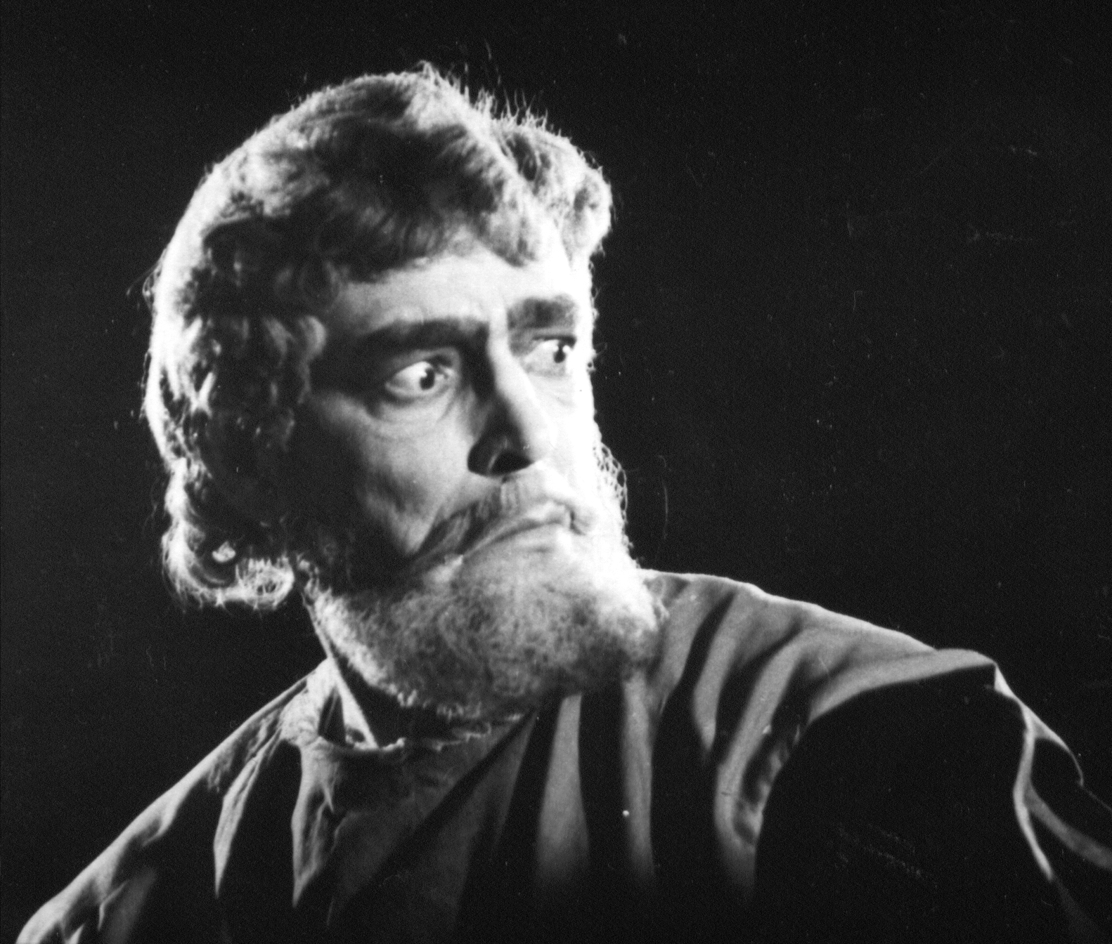 Georgi Petrov as Vladimir Yaroslavich, the Prince of Galich, in Alexander Borodin's 1890 opera Prince Igor